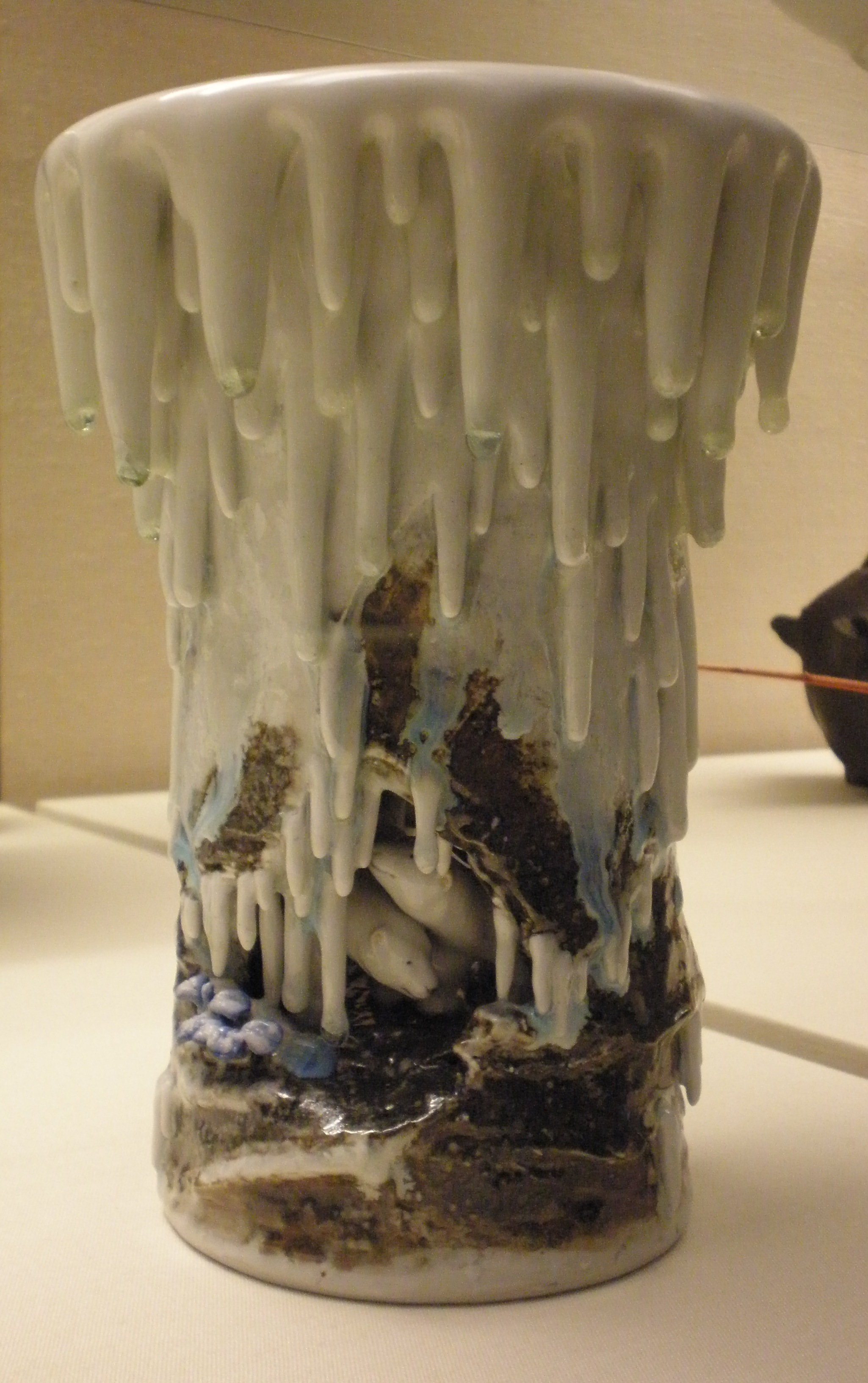 Vase in the form of Two Polar Bears inside an Icy Cave Porcelain; in the style of Royal Copenhagen Japan; ca. 1900-1910, exhibited 1910 at the Japan–British Exhibition Miyagawa Kozan (maker) Vase in the form of two polar bears inside an icy cave; porcelain with decoration in underglaze turquoise and brown; 'Makuzu' ware, Miyagawa Kozan, Japan, ca. 1900-1910. Dingwall Gift Collection ID: C.244-1910 This photo was taken as part of Britain Loves Wikipedia in February 2010 by David Jackson.